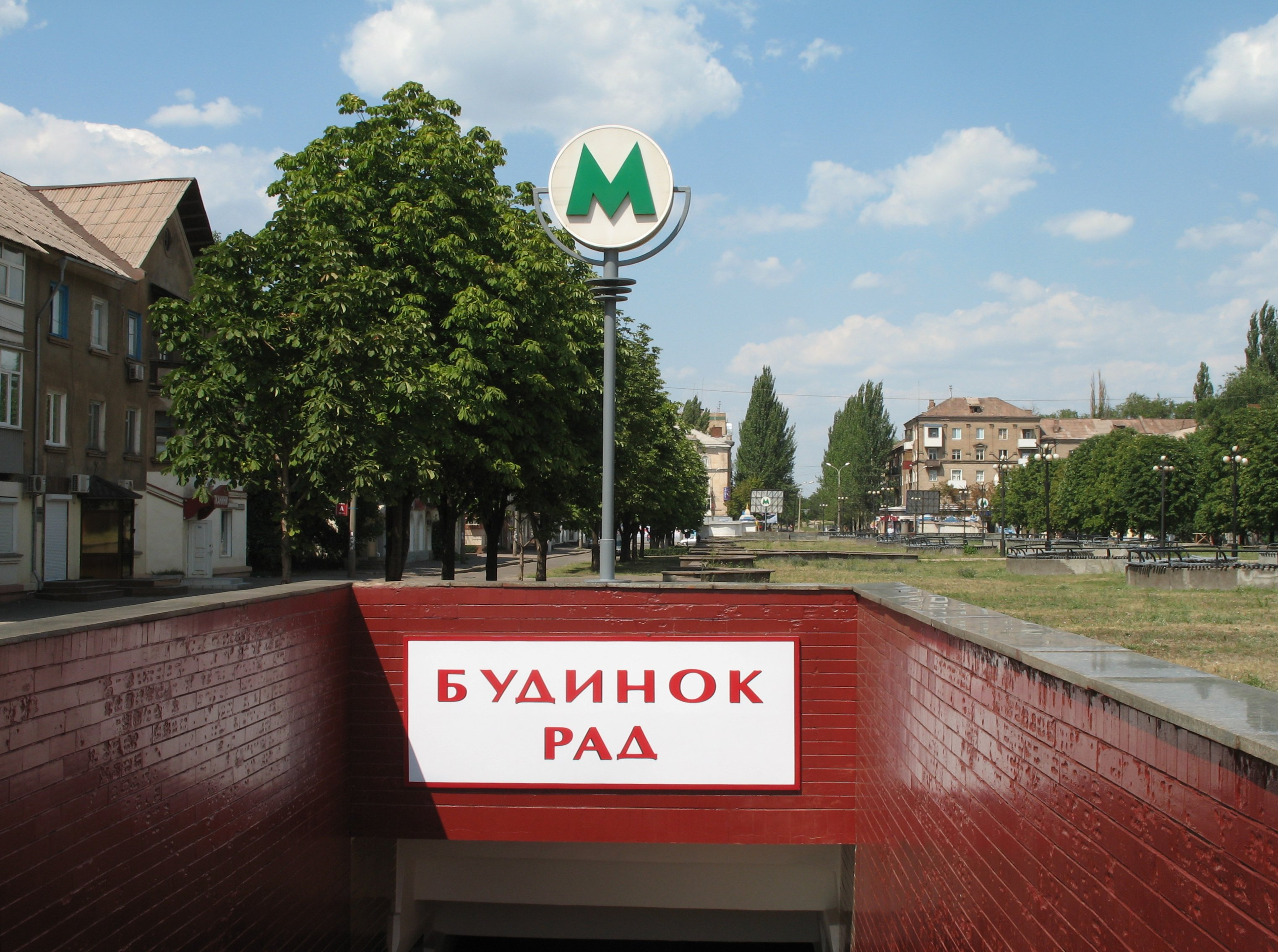 Entrance to Budynok Rad metro station, Kryvyi Rih Metrotram